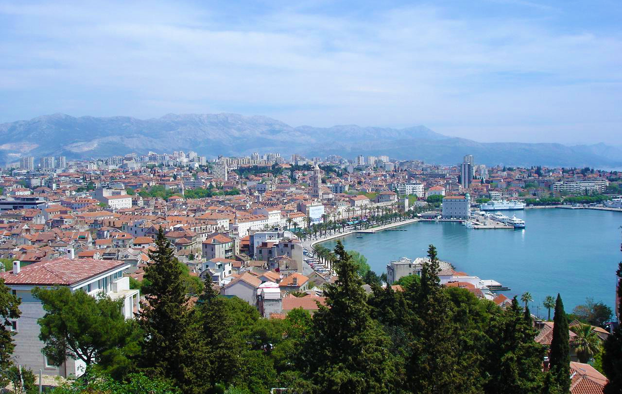 A photo of Split from Marjan hill.